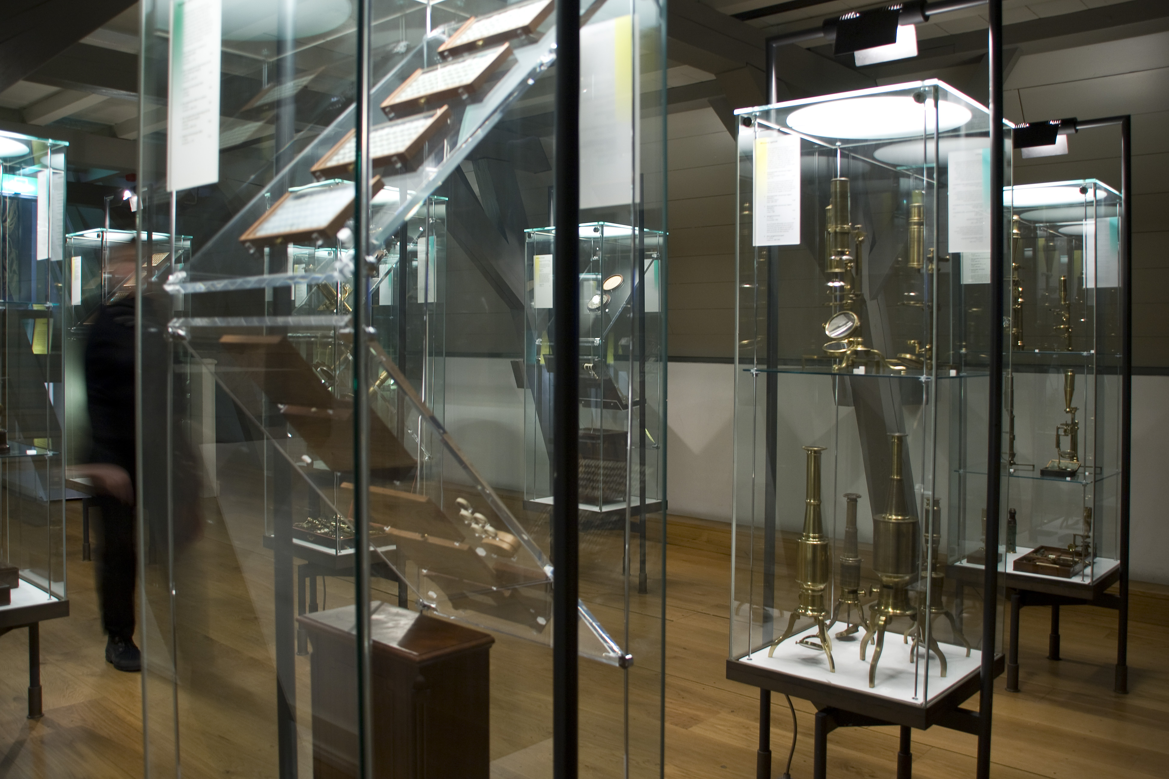 Museum Boerhaave, Leiden - Room with microscopes